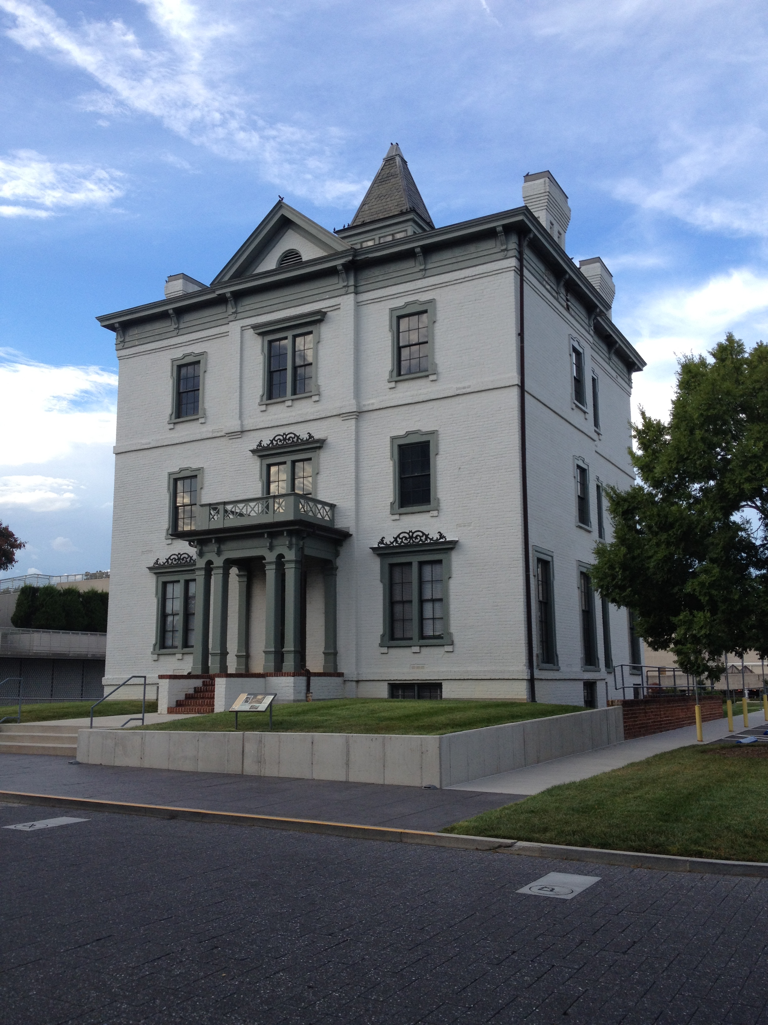 Robinson House, 200 North Blvd.